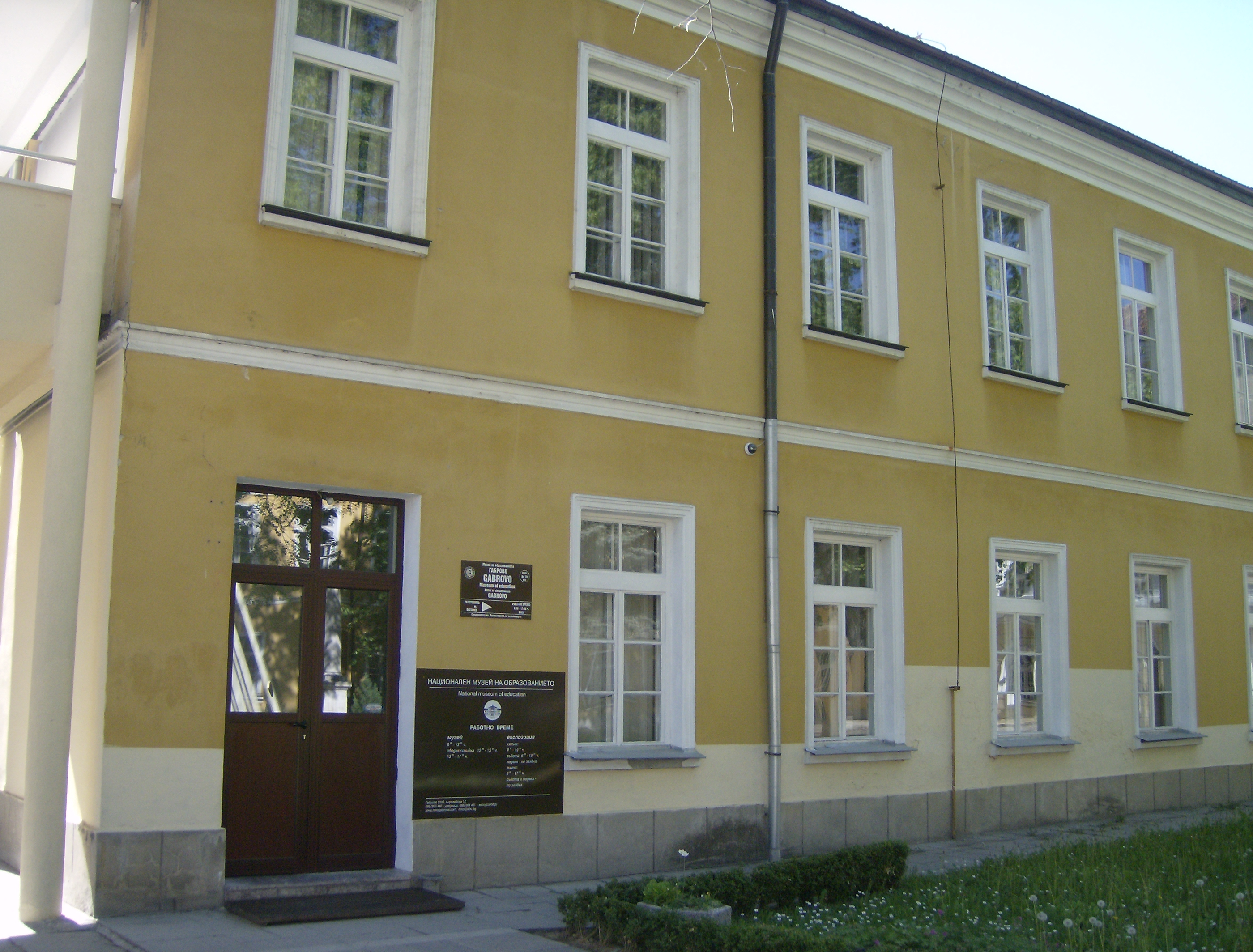 Museum of Education, Aprilov National High School